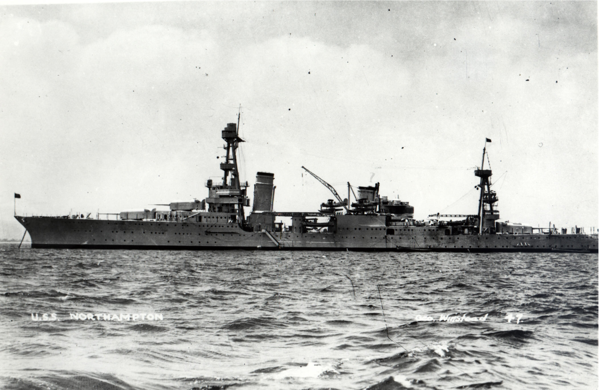 The U.S. Navy heavy cruiser USS Northampton (CA-26) in 1941. Note that her forward funnel has already been heightened but no camouflage has been applied, yet.